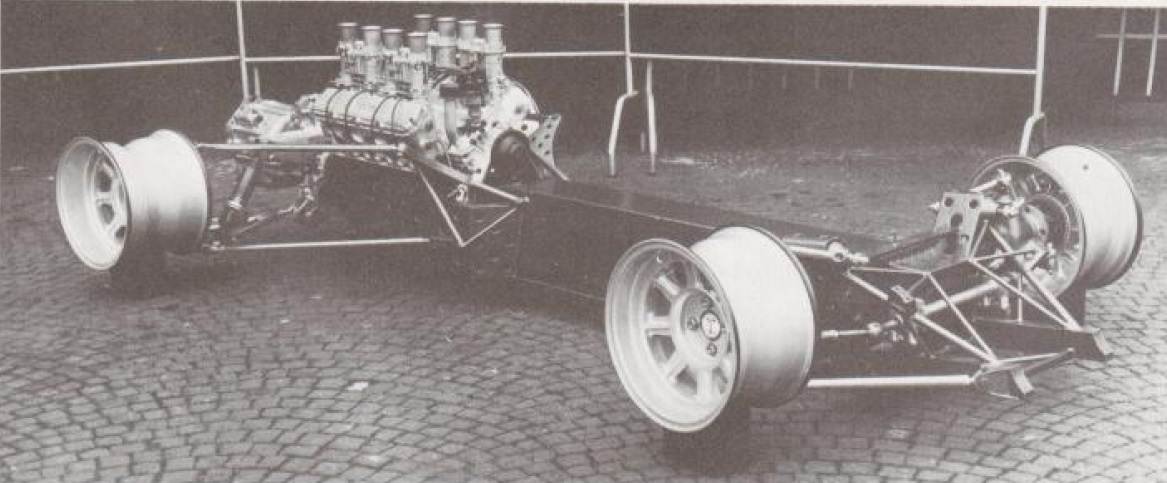 De Tomaso P70 backbone chassis, powerplant and suspensions at Turin Motor Show in November 1965. The same parts were later used in De Tomaso Mangusta.